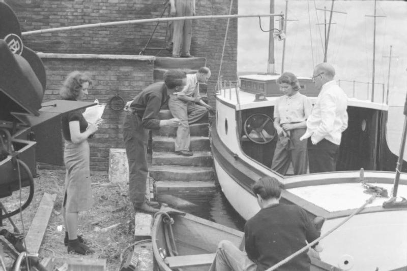 Channel Incident- the Production of a Ministry of Information Film, UK, September 1940 Anthony Asquith directs Peggy Ashcroft and Gordon Harker in 'Channel Incident', a film about the evacuation of Dunkirk made by Denham and Pinewood Studios for the Ministry of Information in 1940. The stars are standing on board a motor yacht, named the 'Wanderer' in the film. The continuity girl, two other members of the production crew and the microphone boom are also in picture.